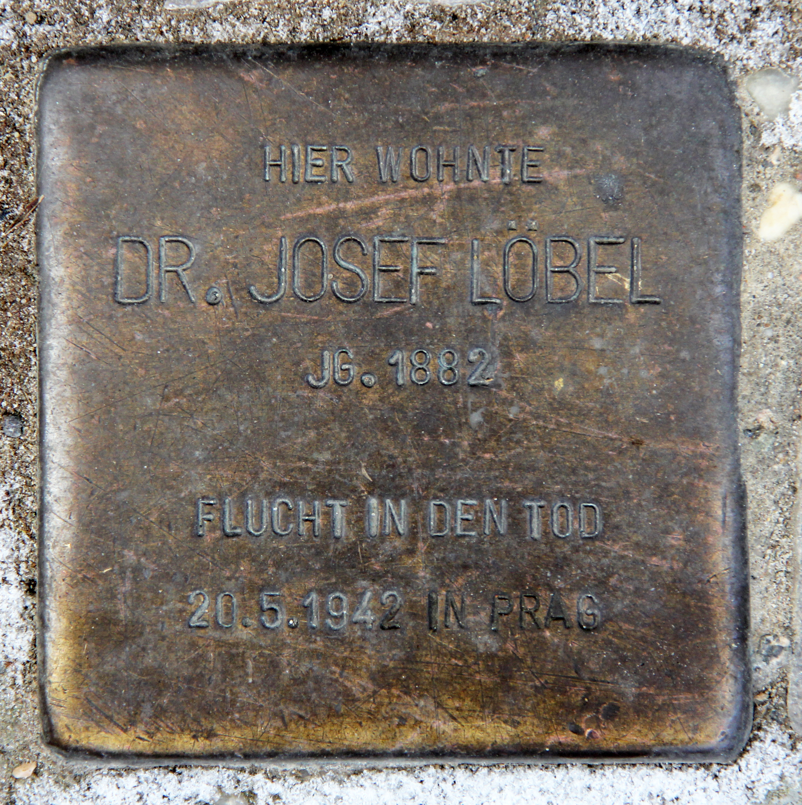 "Stolperstein" (stumbling block), Josef Löbel, Budapester Straße 11, Berlin-Tiergarten, Germany